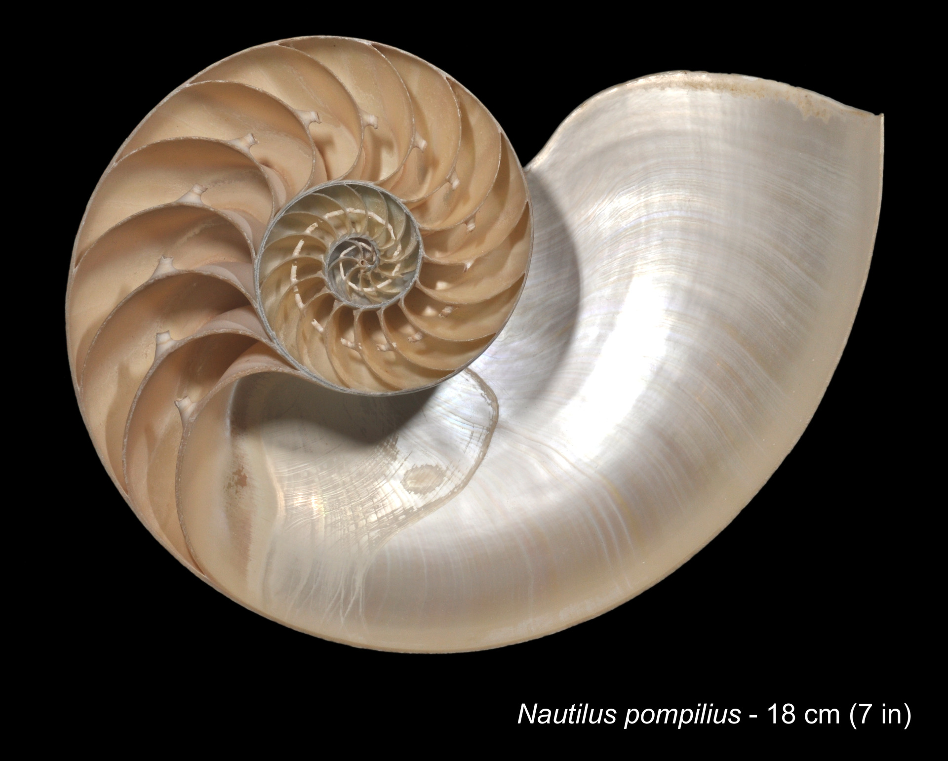 PRESERVED_SPECIMEN; ; ; dry; Det. by: Frederic B. Schell; IZ number 22690; lot count 1